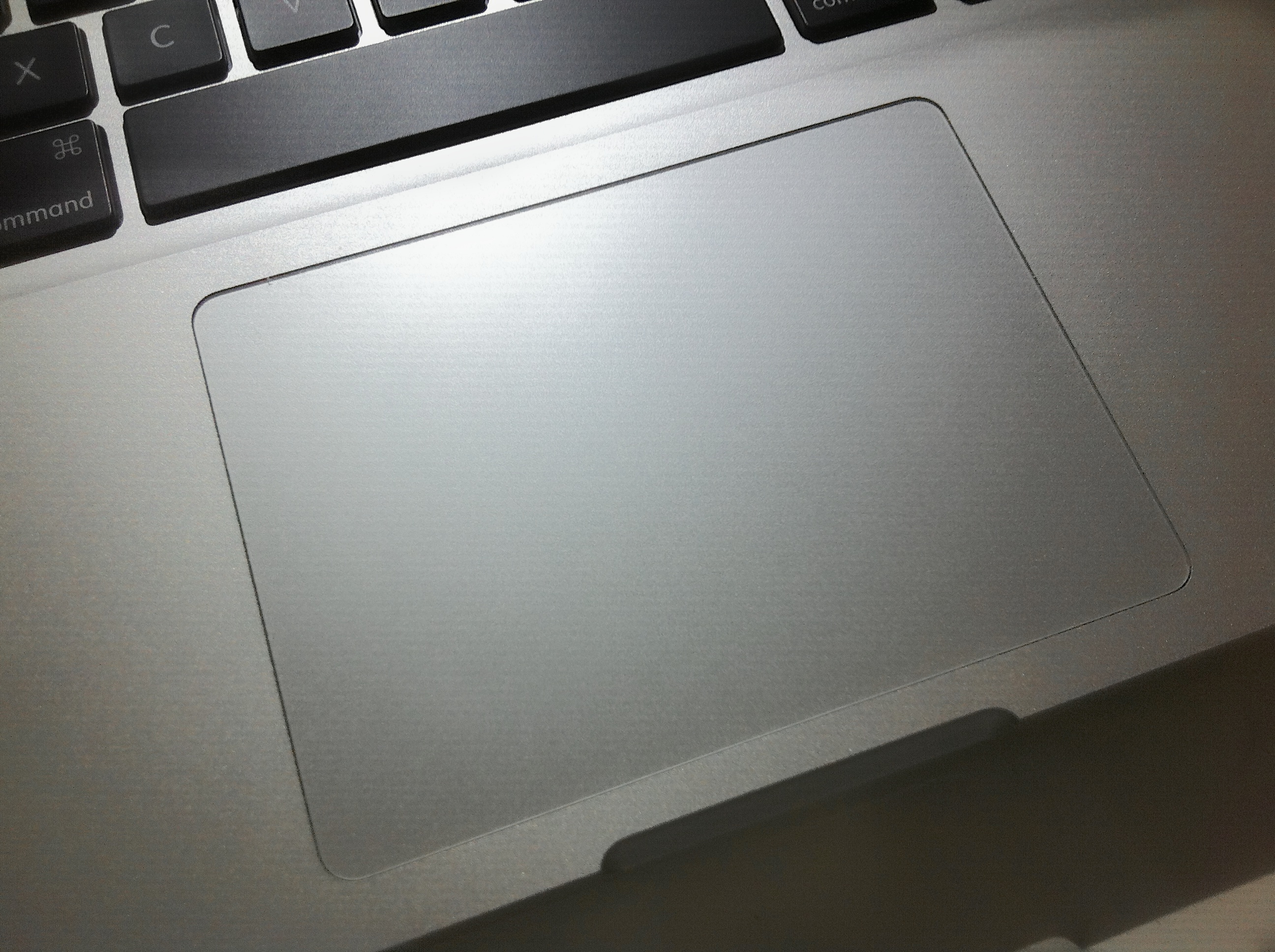 macbook pro 8,1